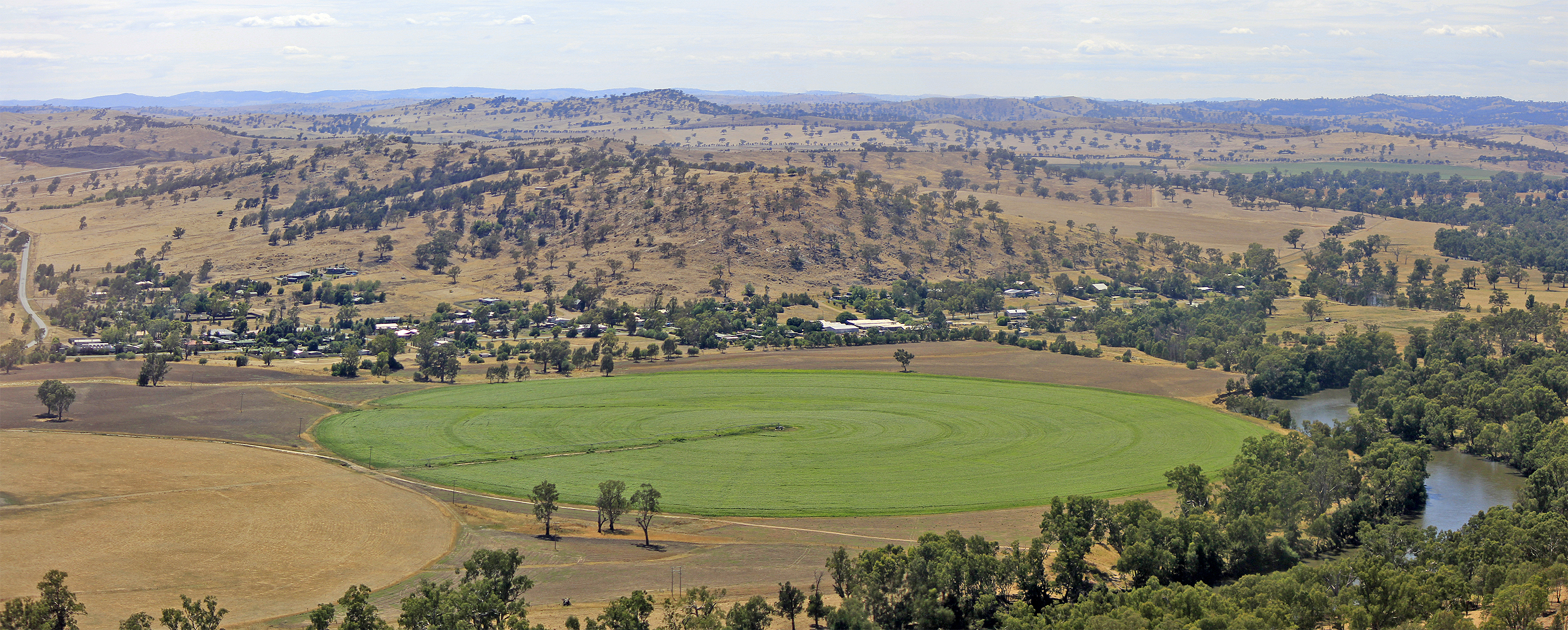 Aerial view of Oura, New South Wales panorama.